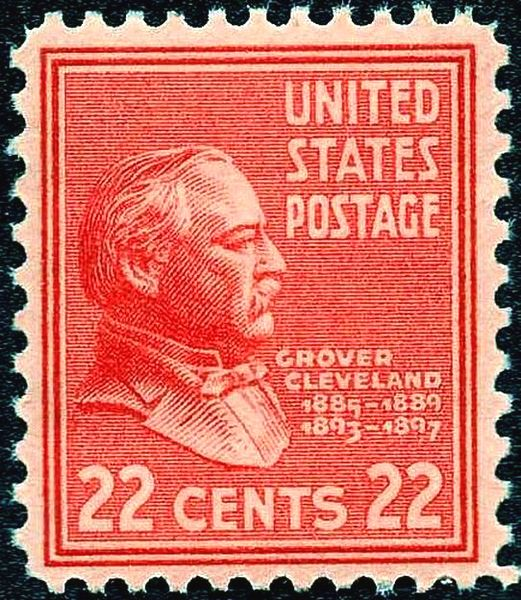 US Postage stamp:Grover Cleveland, 1938 issue, 22c